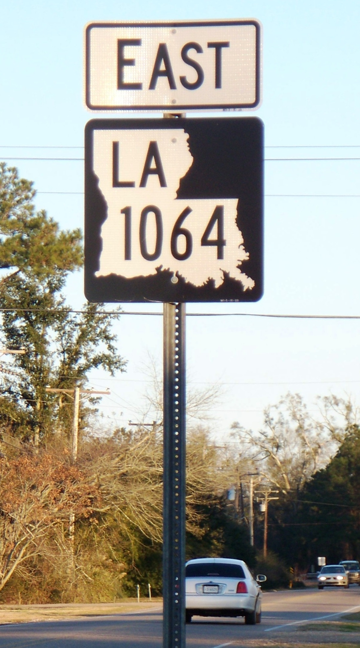 Louisiana's new black-white state highway shield, shown for LA 1064 heading east in Natalbany